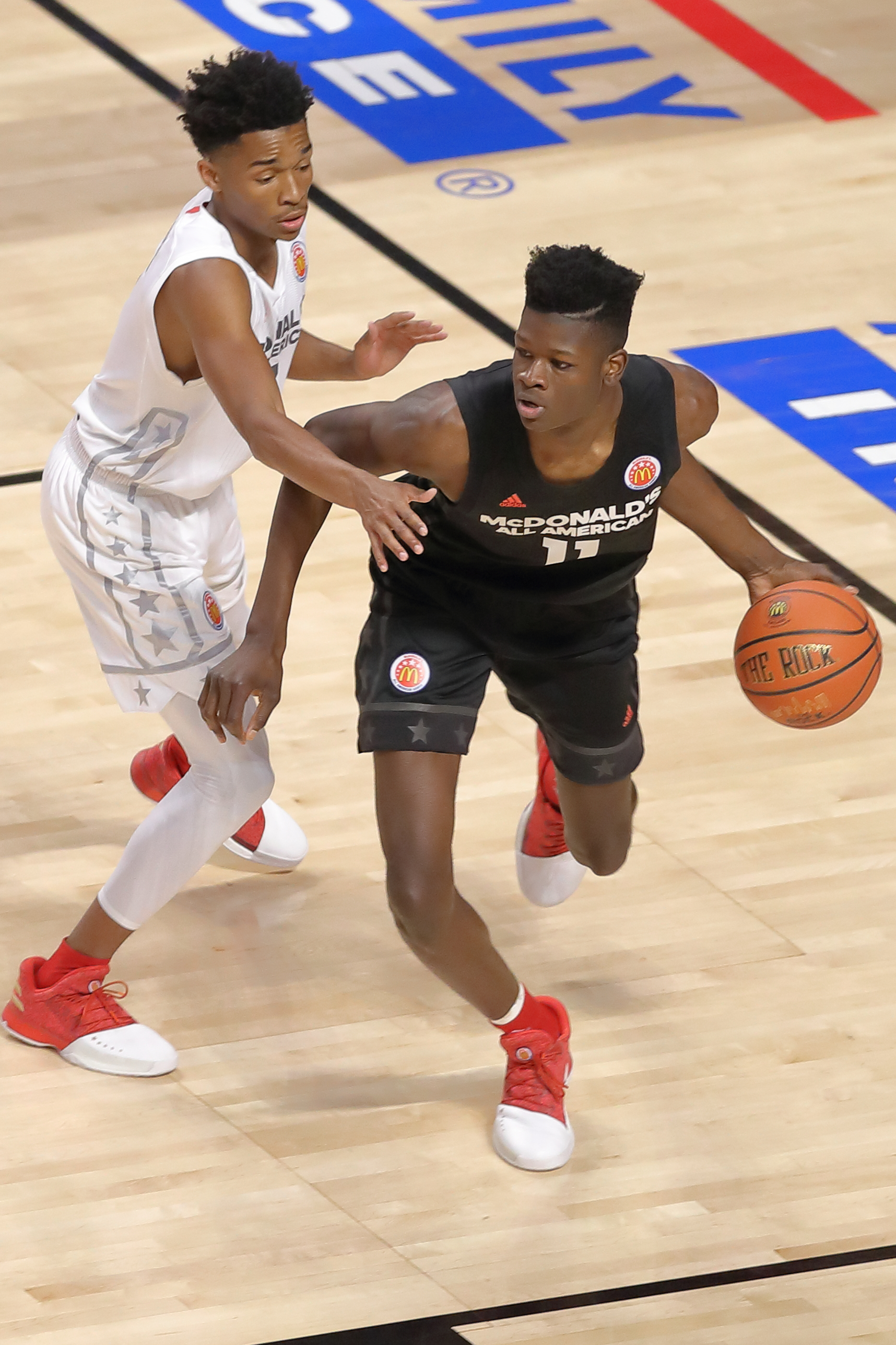 Mohamed Bamba in front of Jaylen Hands at the w:2017 McDonald's All-American Boys Game